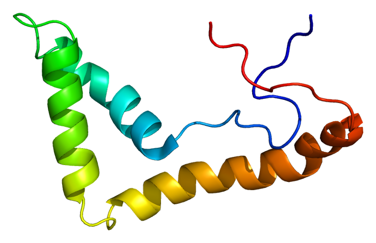 Structure of the UBTF protein. Based on PyMOL rendering of PDB 1k99.